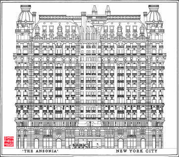 Ansonia Building New York